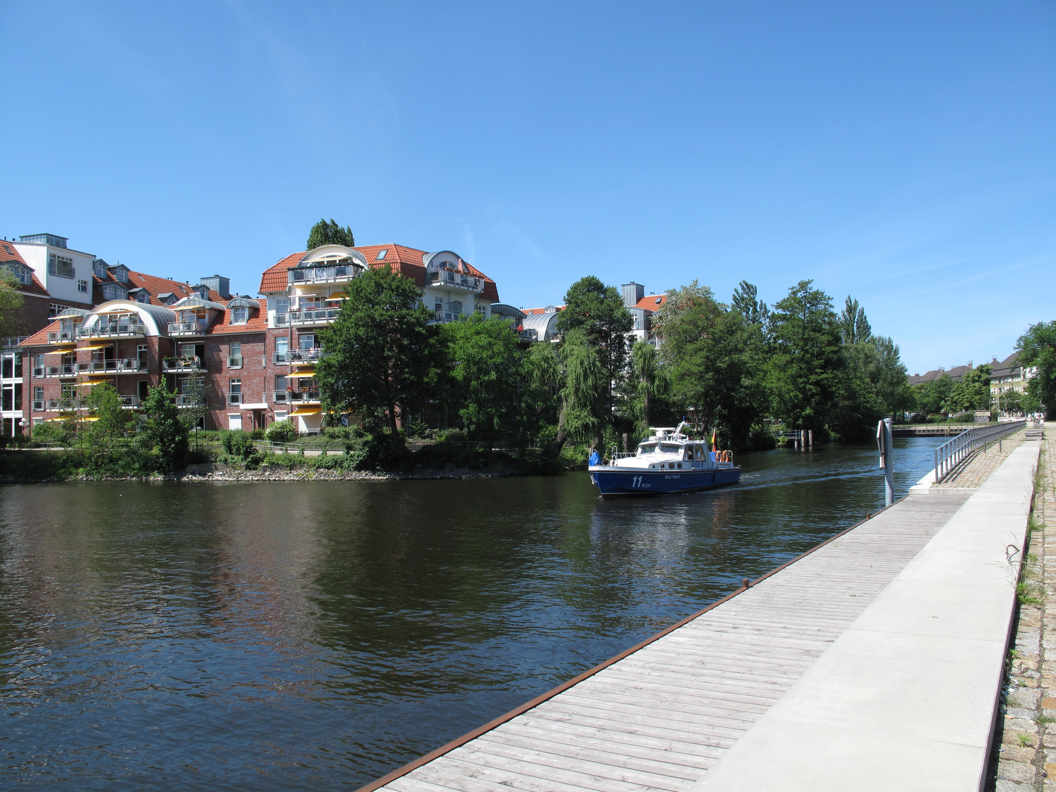 The last part of the Nordhafen Spandau, at the end the green space Hohenzollermpark. The Nordhafen Spandau (north harbour Spandau) is a branch canal of the river Havel and a former inland harbour in Berlin, Borough Spandau, locality Hakenfelde.